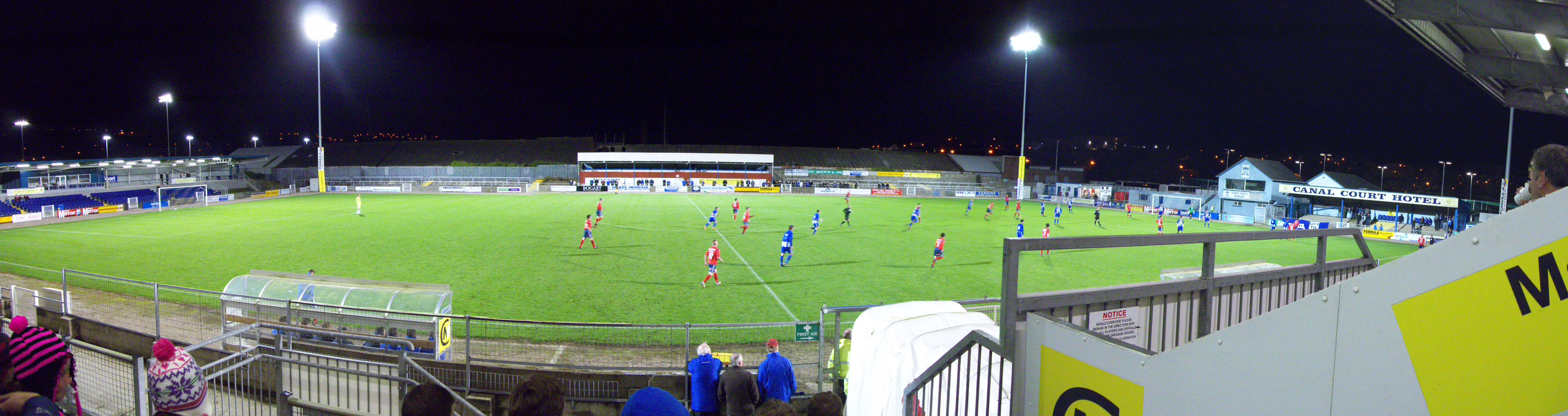 Panoramic image of Newry Showgrounds at night under floodlights.